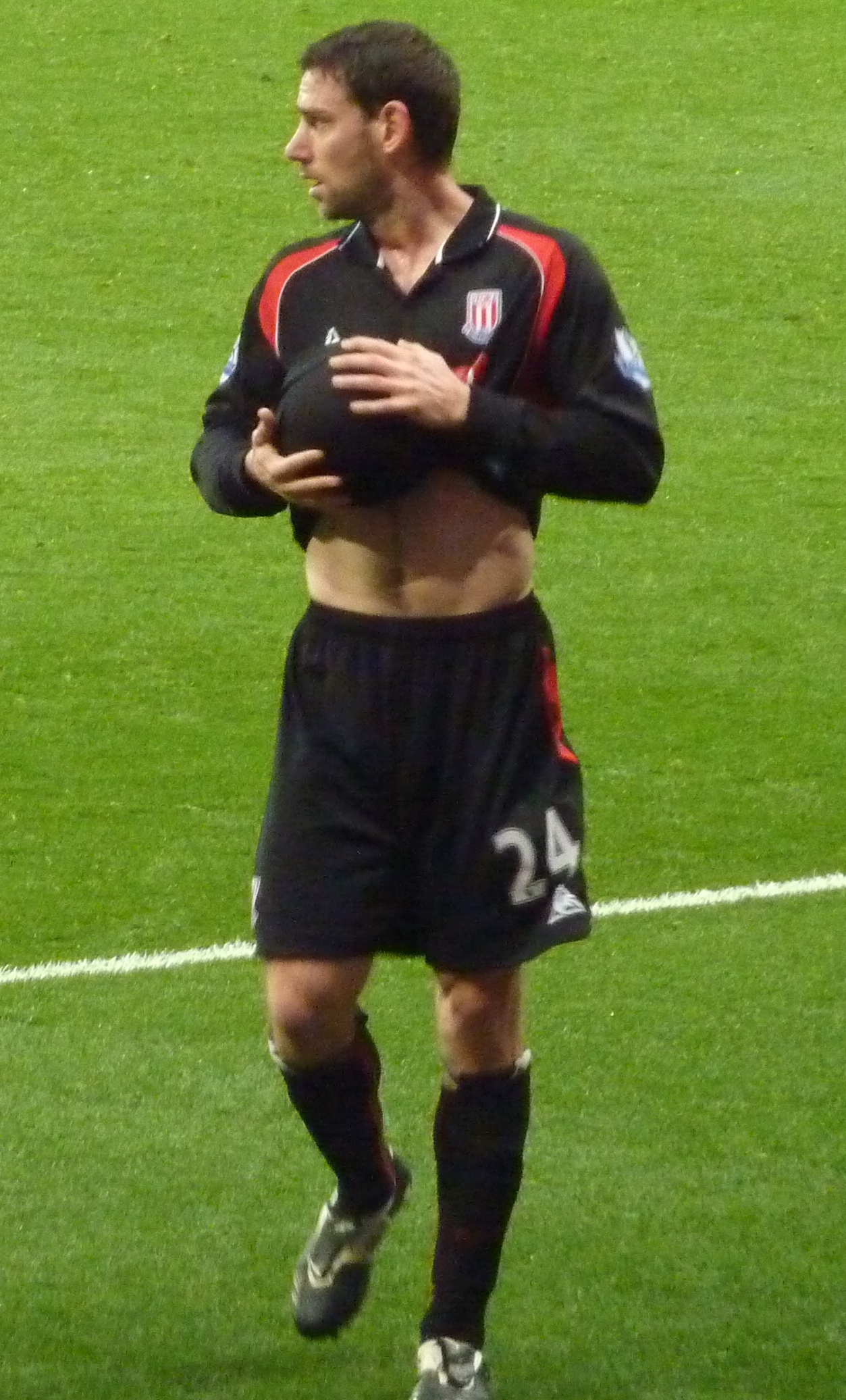 Not matter how bad or poor we could be, I wouldnt have him to save my life. He throws the ball and that is it, Stoke play to that tune.